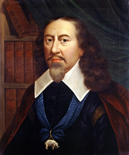 Posthumously painted portrait of Joachim Gersdorff, Danish Steward of the Realm from 1651 to 1660